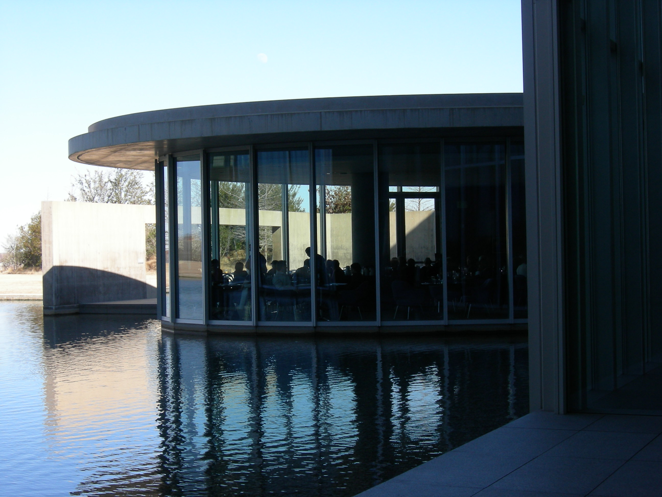 Modern Art Museum of Fort Worth, Fort Worth, Texas.